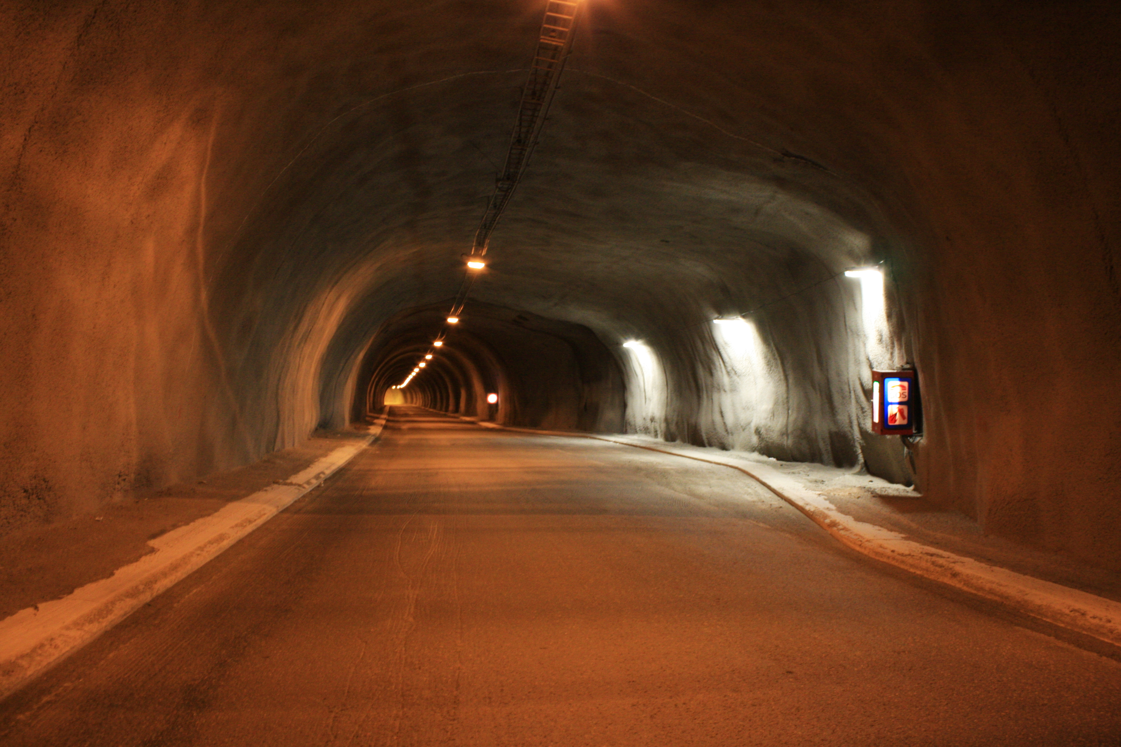 Sørskartunnelen - Inside the tunnel